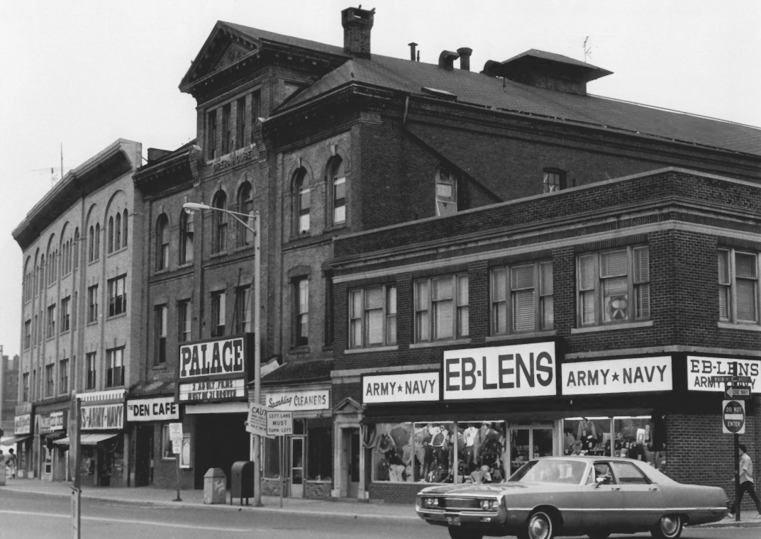 New Britain Opera House, New Britain, Connecticut. It was demolished during urban renewal before 1994.